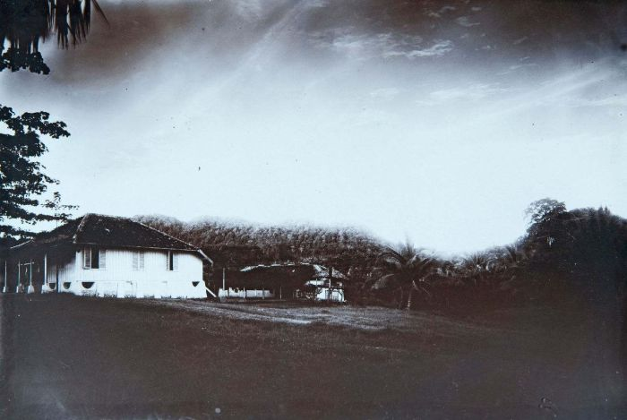 House, Tjikoedjang